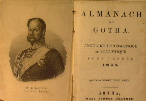 Scan of the frontispiece of a book published in 1851